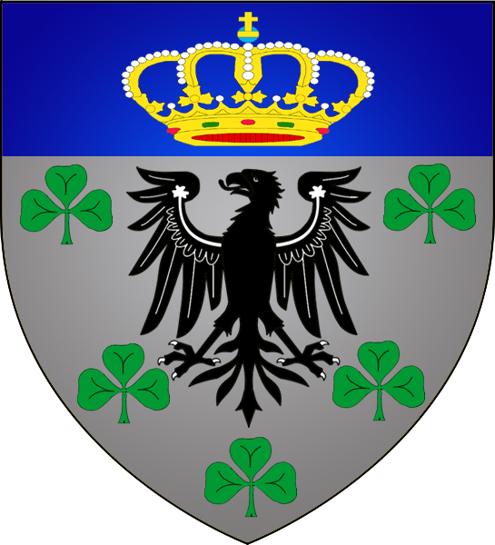 Coat of arms of the municipality of Colmar-Berg, Luxembourg